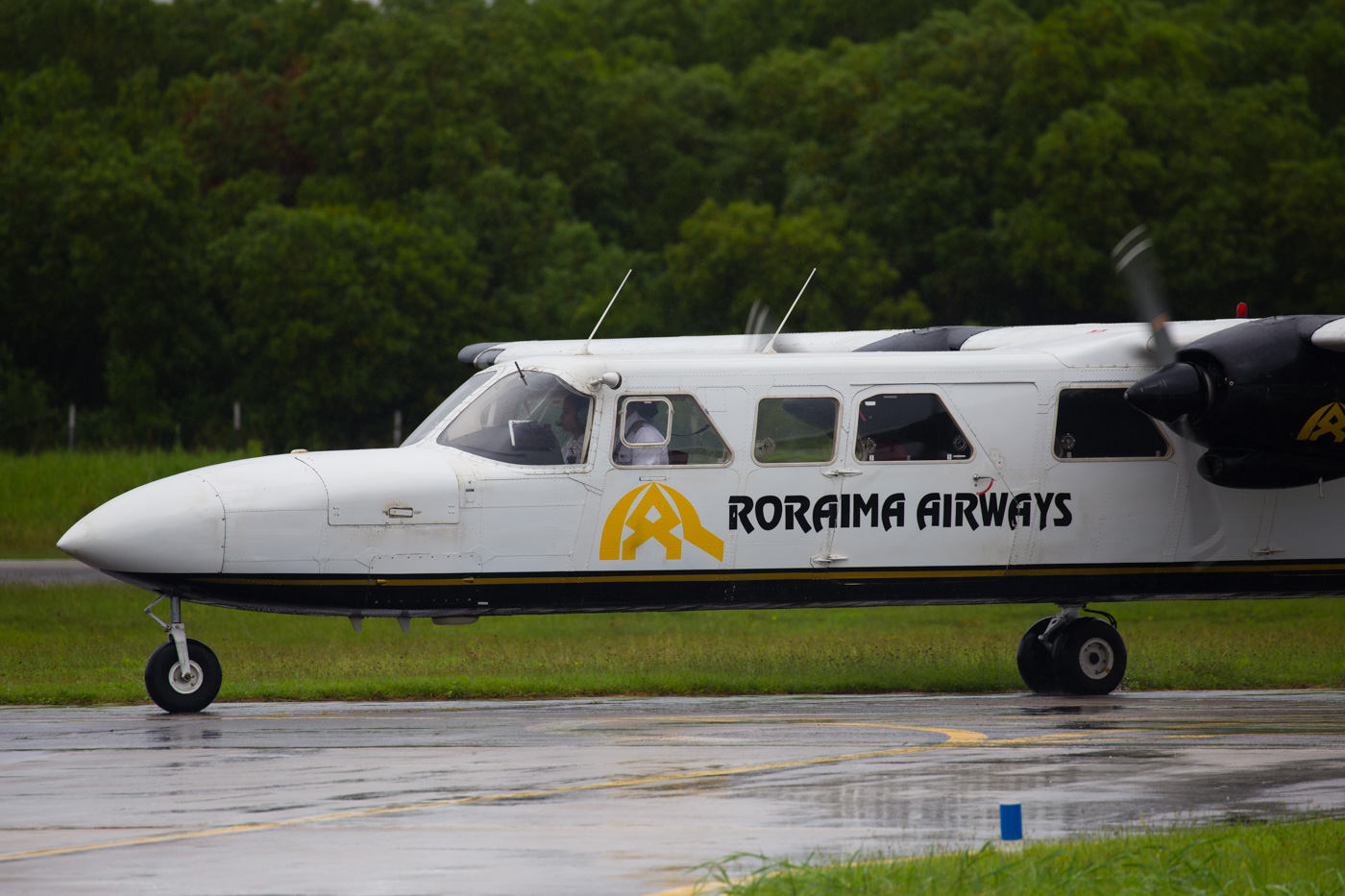 Britten-Norman BN-2A Mk III Trislander Roraima Airways-9921 (10)